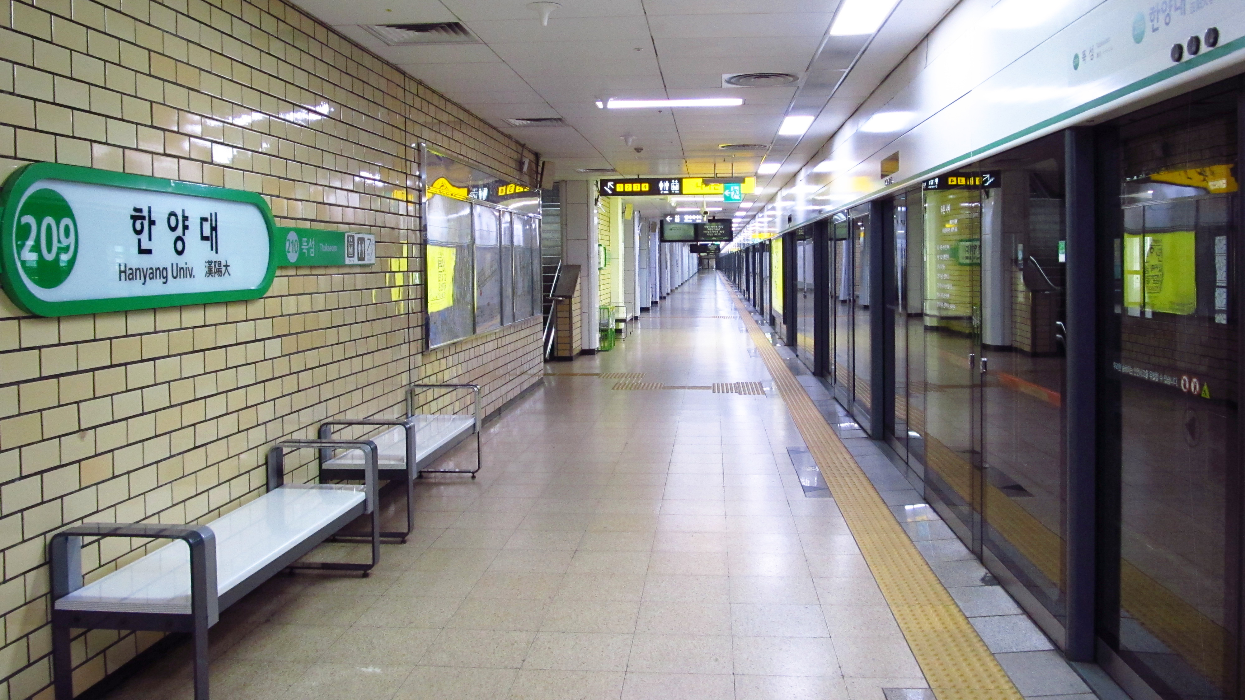 The platform at Hanyang University Station on Seoul Subway Line 2 in Seongdong-gu, Seoul, Republic of Korea(South Korea)